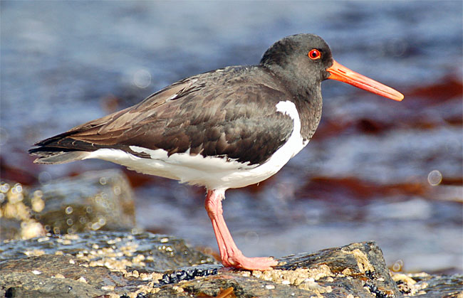 Oystercatcher at the norwegian bird-island Runde